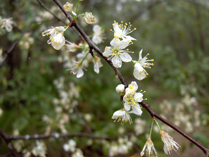 American Plum